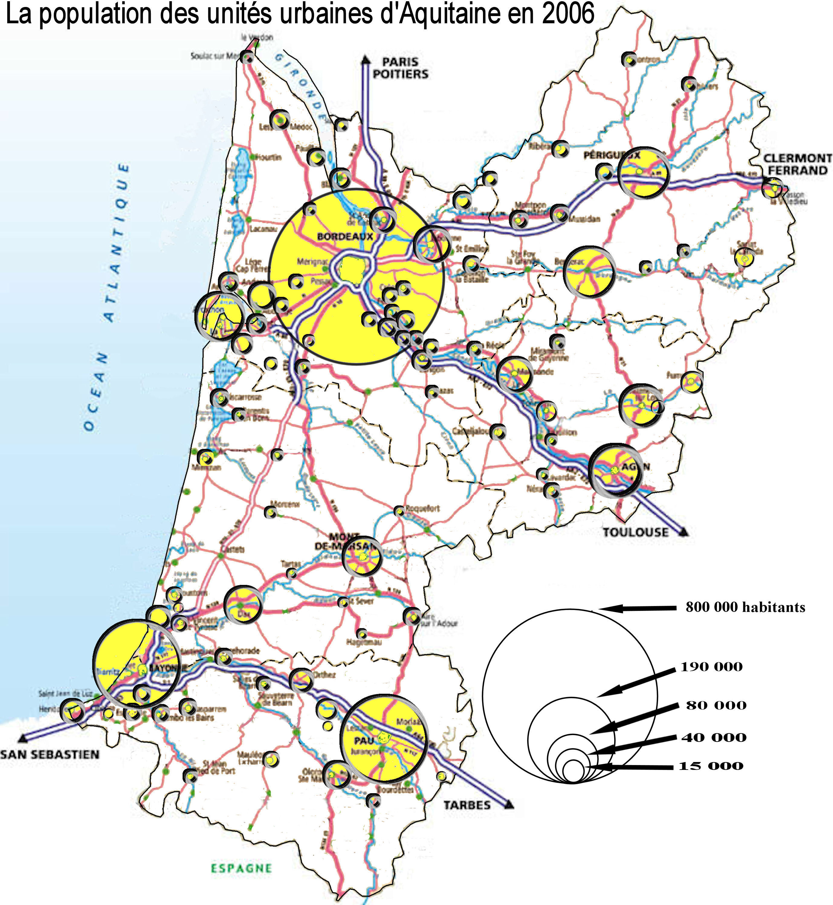 Figure showing the distribution of urban units in Aquitaine in 2006